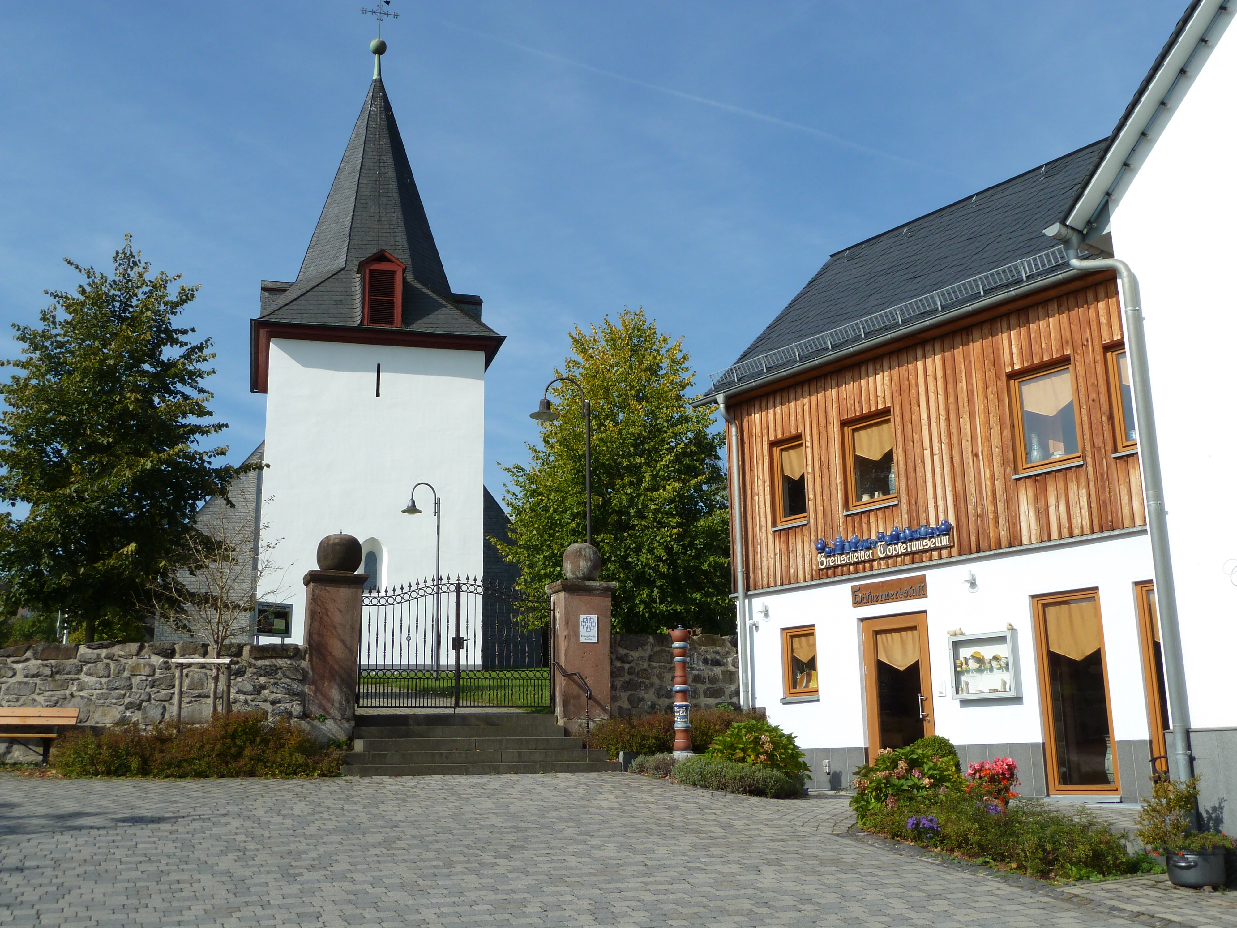 Pottery museum in Breitscheid, Germany